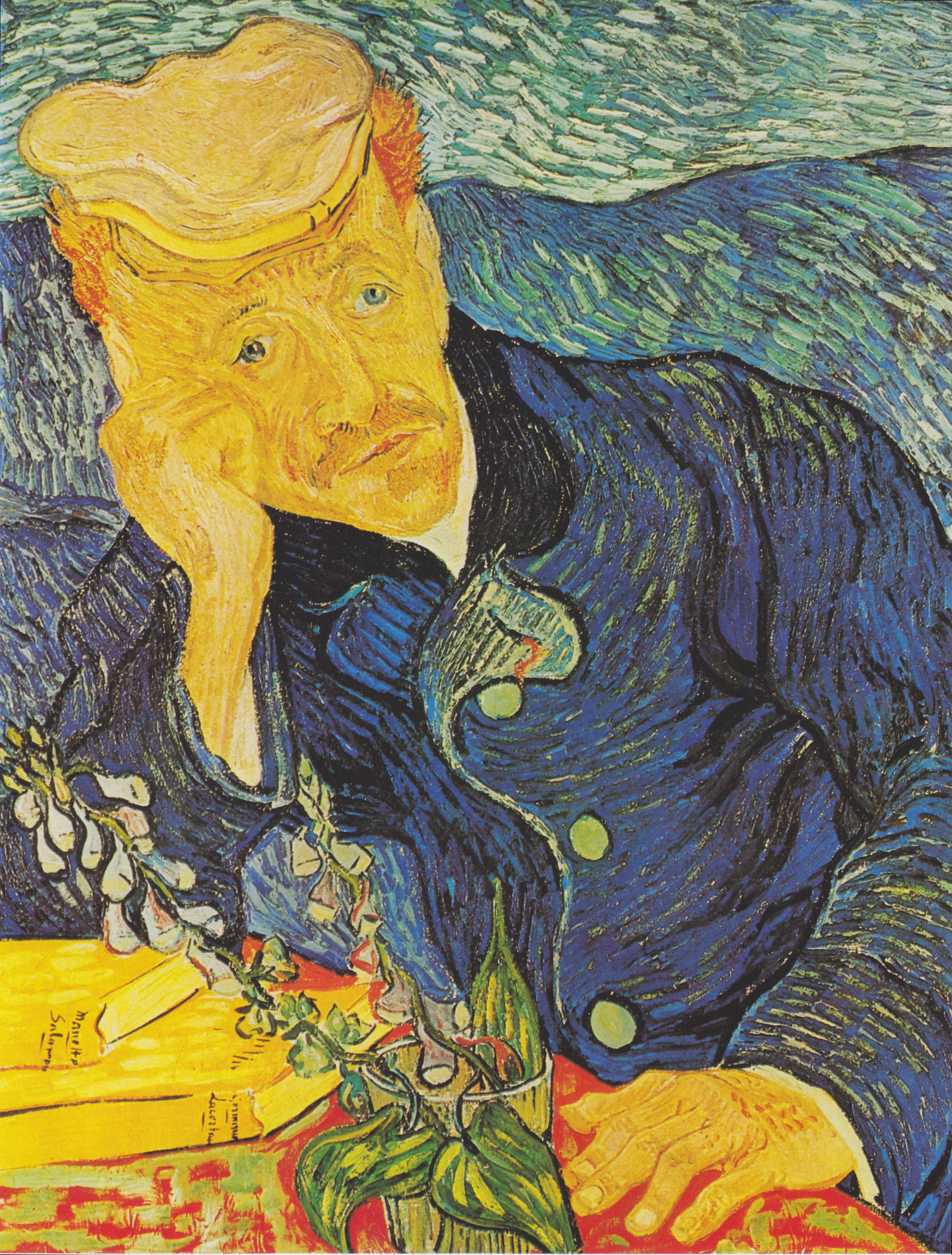 The first version of this motif